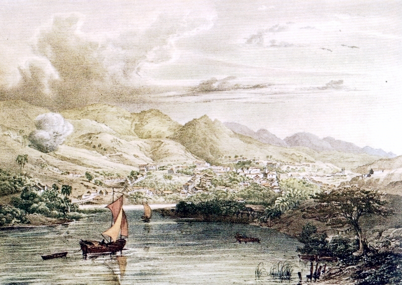 Sabará city in Minas Gerais state